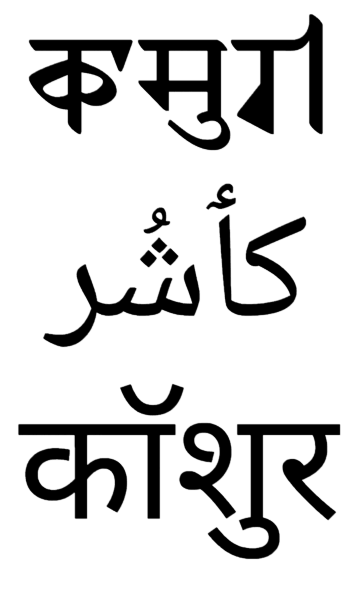 From top to bottom: The word "Koshur" in Sharada script, Perso-Arabic script and Devanagari script.